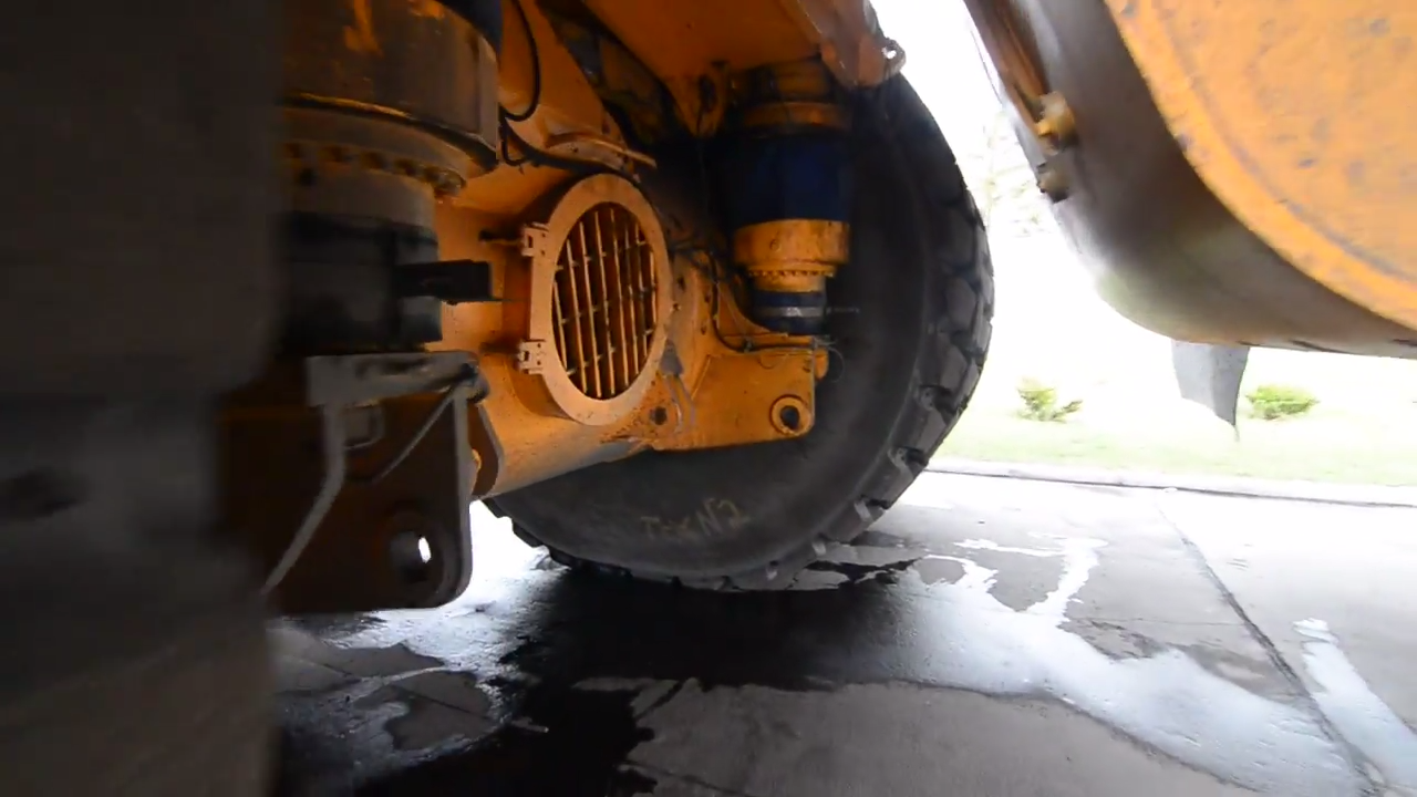 Under BelAZ-75710